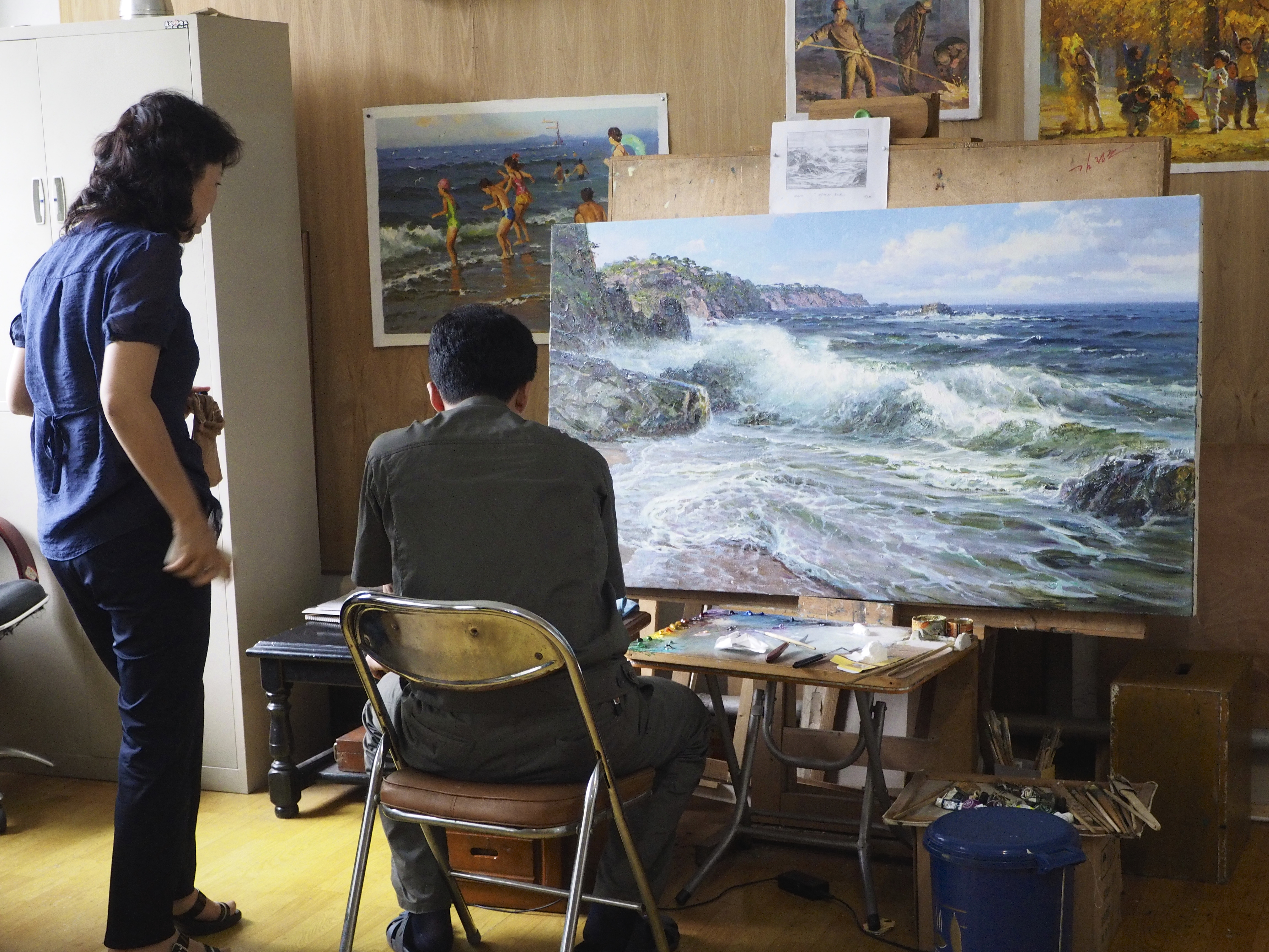 At the Mansudae Art Studio